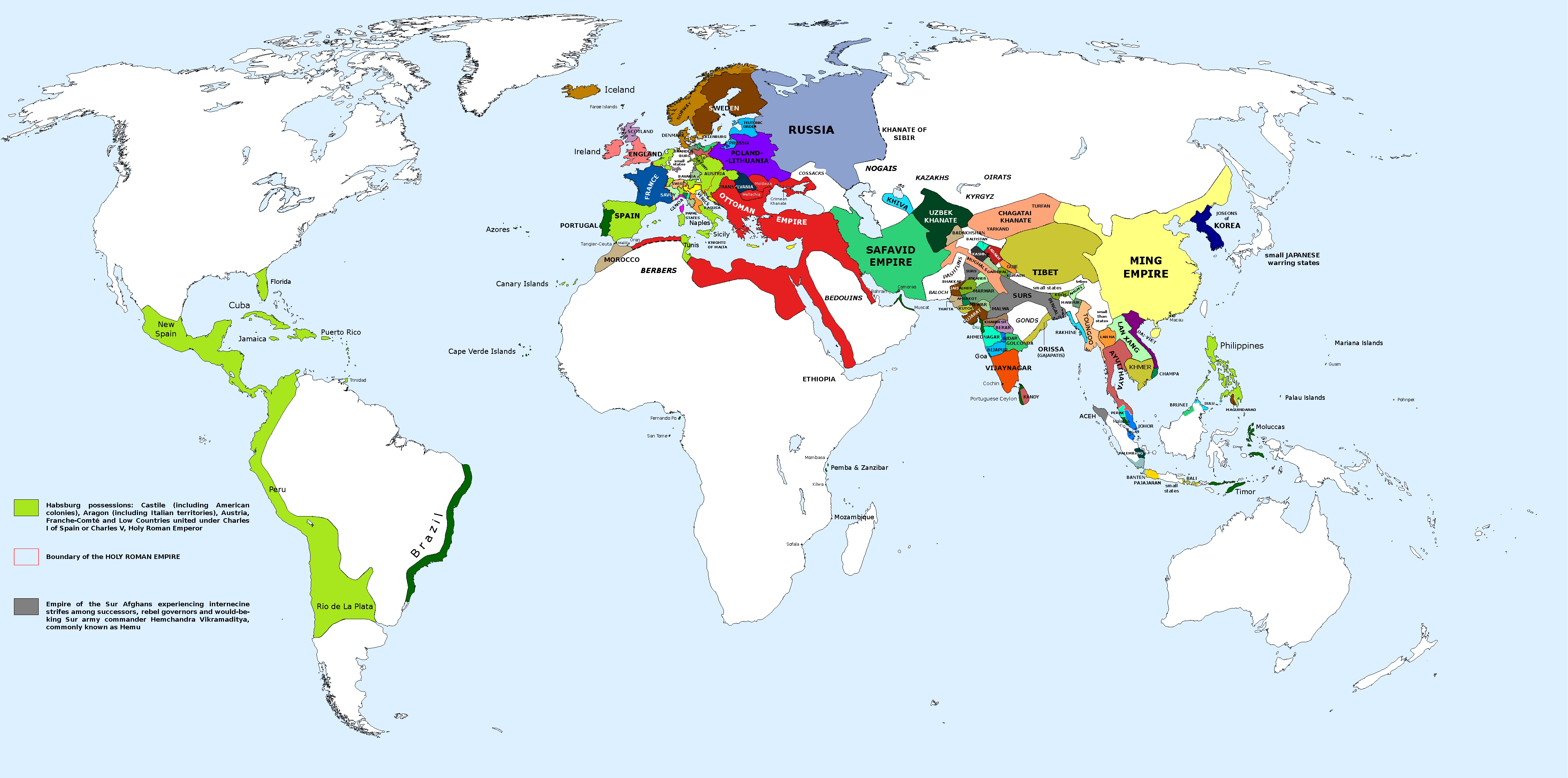 The restoration of the Mughal Empire in India - 1555-56 CE.